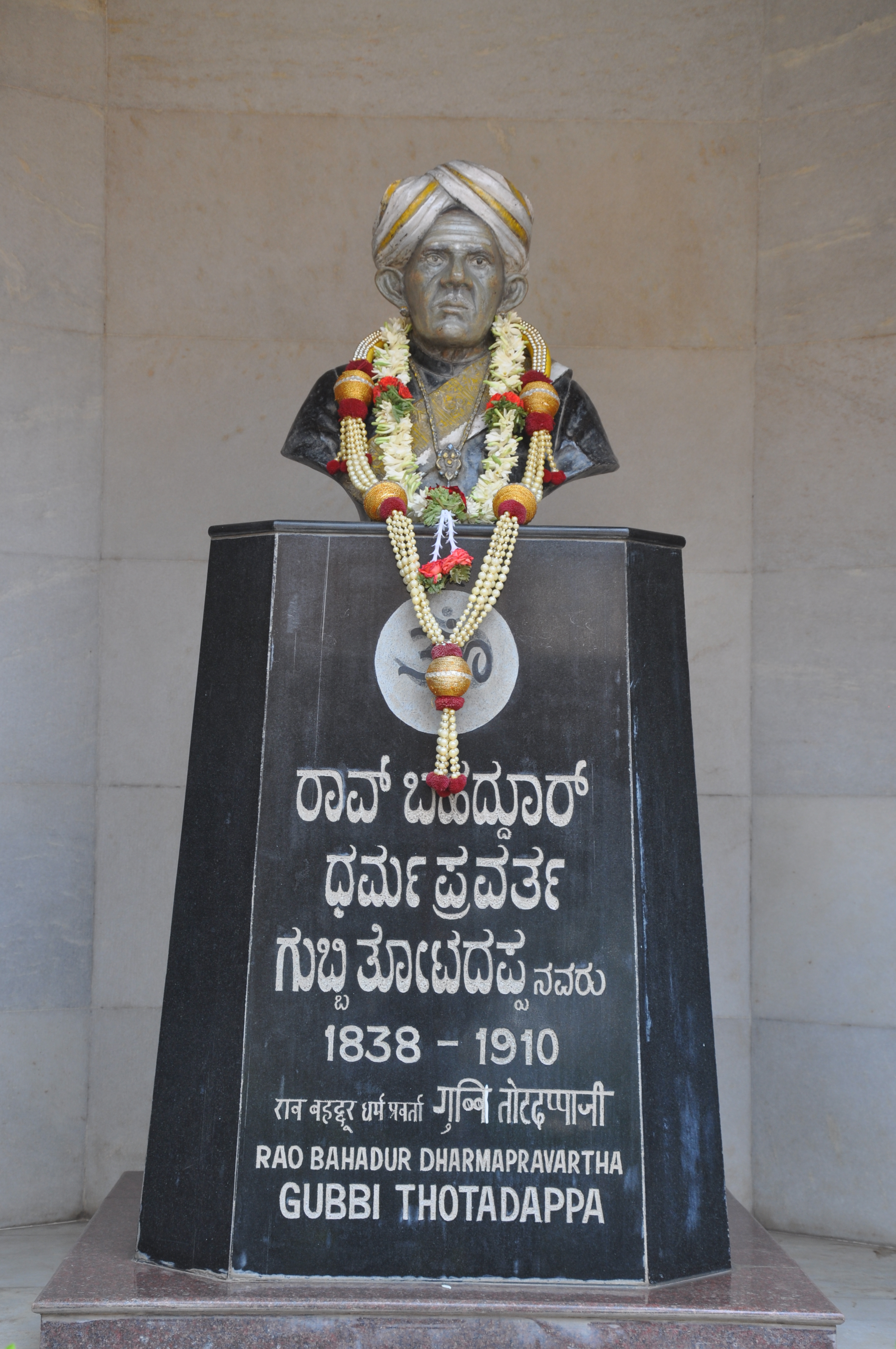 Rao Bhadhur gubbi thotadappa(RBDGTC) hostel,Bangalore near majestic